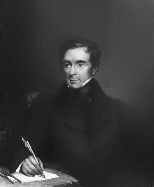 Portrait of Sir Benjamin Collins Brodie, 1st Baronet (1783 – 1862), English physiologist and surgeon.